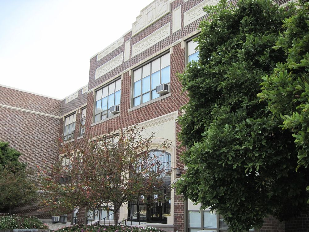 Front of the Lindenwood University-Belleville Administration Building